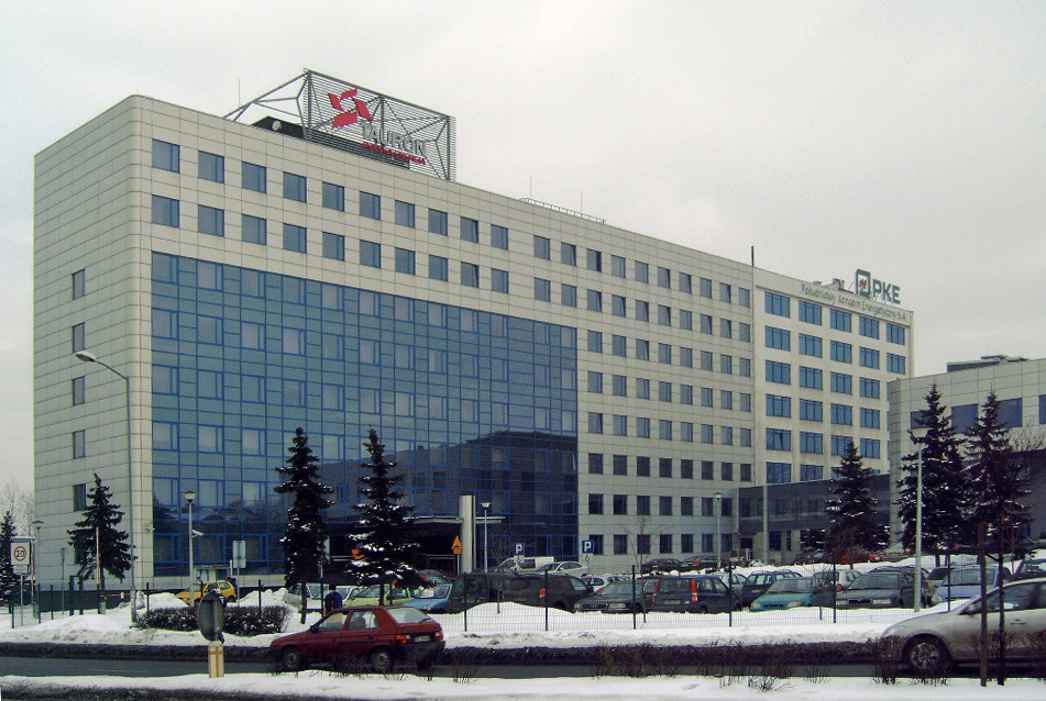 Lwowska Street in Katowice